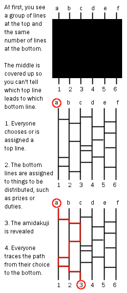 An example of how an amidakuji can be done.